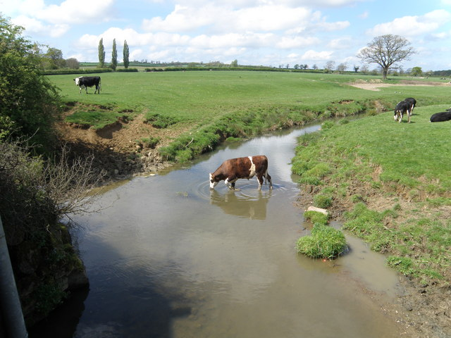 A liquid lunch in the Eye Brook